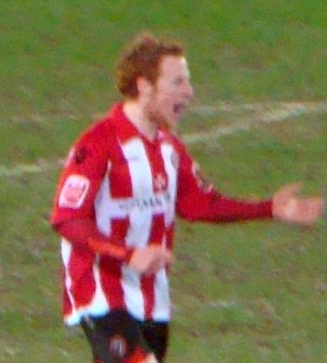 Stephen Quinn in his Blades kit after scoring an equaliser against Cardiff City FC.